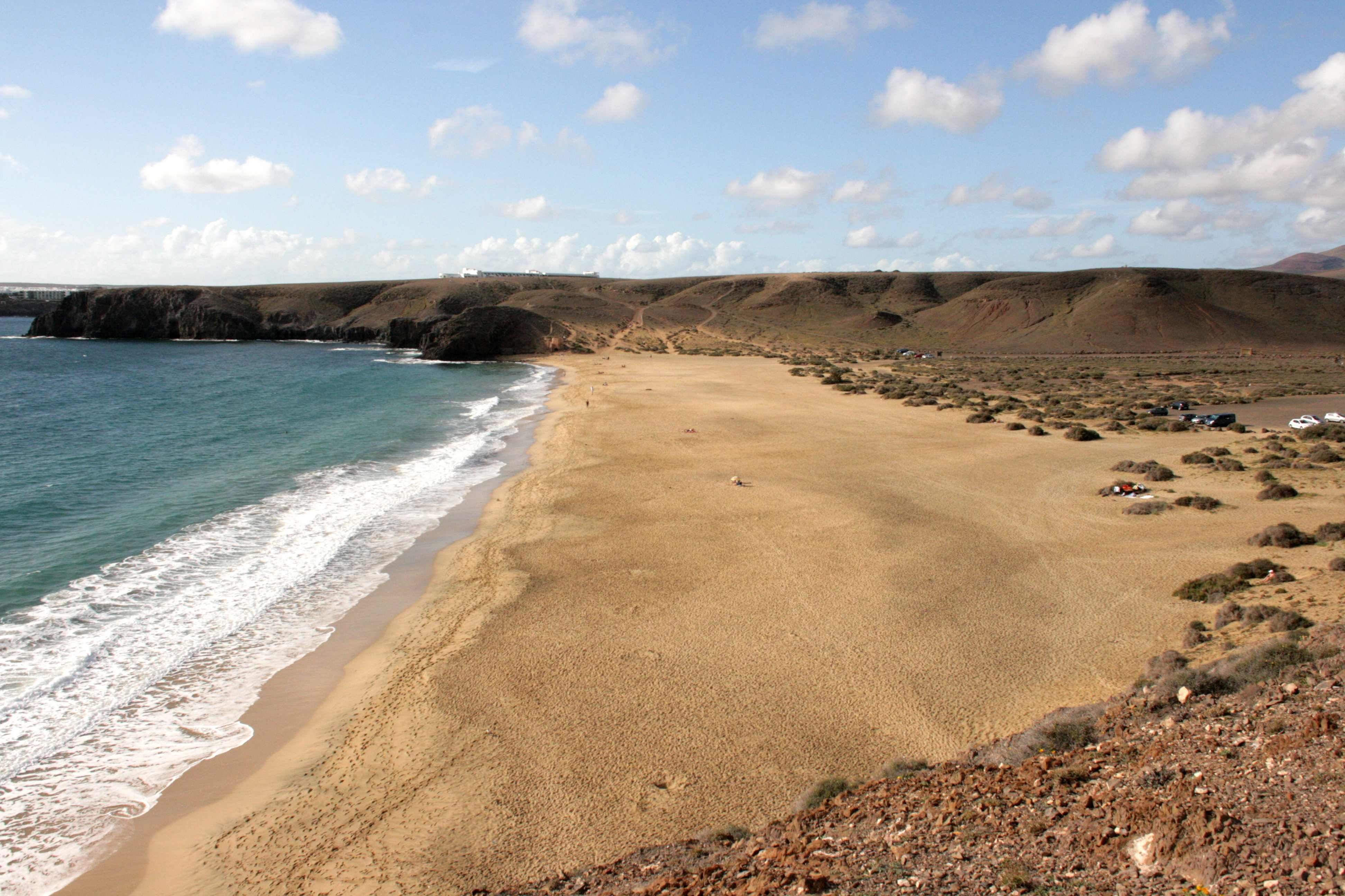 Playa de Mujeres, Playas de Papagayo in Playa Blanca, Yaiza, Lanzarote, Canary Islands